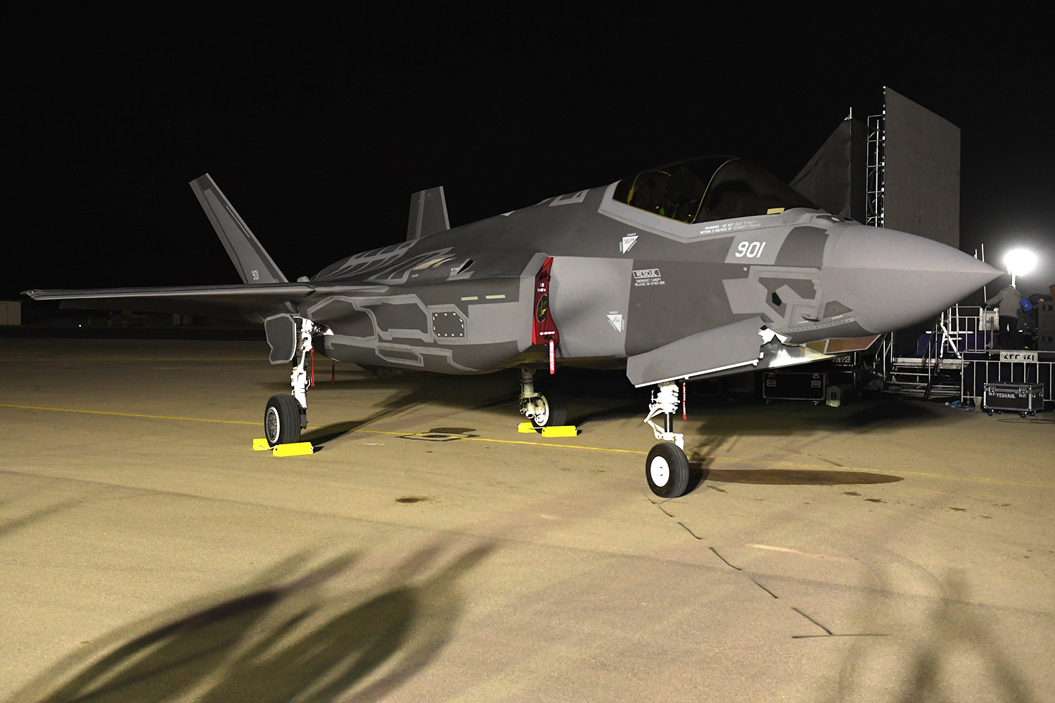 During a festive ceremony at Nevatim Air Force Base in southern Israel, on Monday, December 12, 2016, Israel received its first two fifth-generation F-35 Joint Strike Fighters, code-named by the Israeli Air Force as "Adir," (The Mighty One). The ceremony included thousands of invitees, and speeches by Prime Minister Benjamin Netanyahu and U.S. Secretary of Defense Ash Carter.